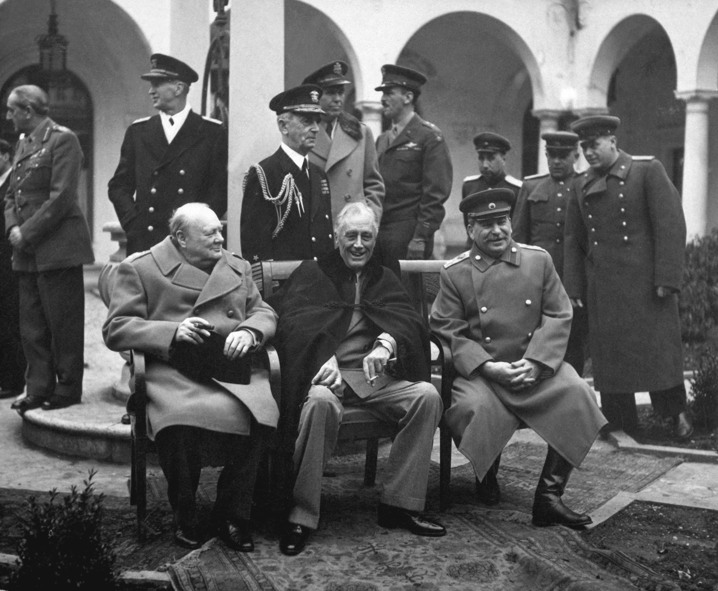 Yalta Conference, February 1945. Original caption: "Conference of the Big Three at Yalta makes final plans for the defeat of Germany. Here the "Big Three" sit on the patio together, Prime Minister Winston S. Churchill, President Franklin D. Roosevelt, and Premier Josef Stalin. Behind them stand, from the left, Field Marshal Sir Alan Brooke, Fleet Admiral Ernest King, Fleet Admiral William D. Leahy, General of the Army George Marshall, Major General Laurence S. Kuter, General Aleksei Antonov, Vice Admiral Stepan Kucherov, and Admiral of the Fleet Nikolay Kuznetsov. February 1945. (Army) Exact Date Shot Unknown NARA FILE #: 111-SC-260486 WAR & CONFLICT BOOK #: 750"